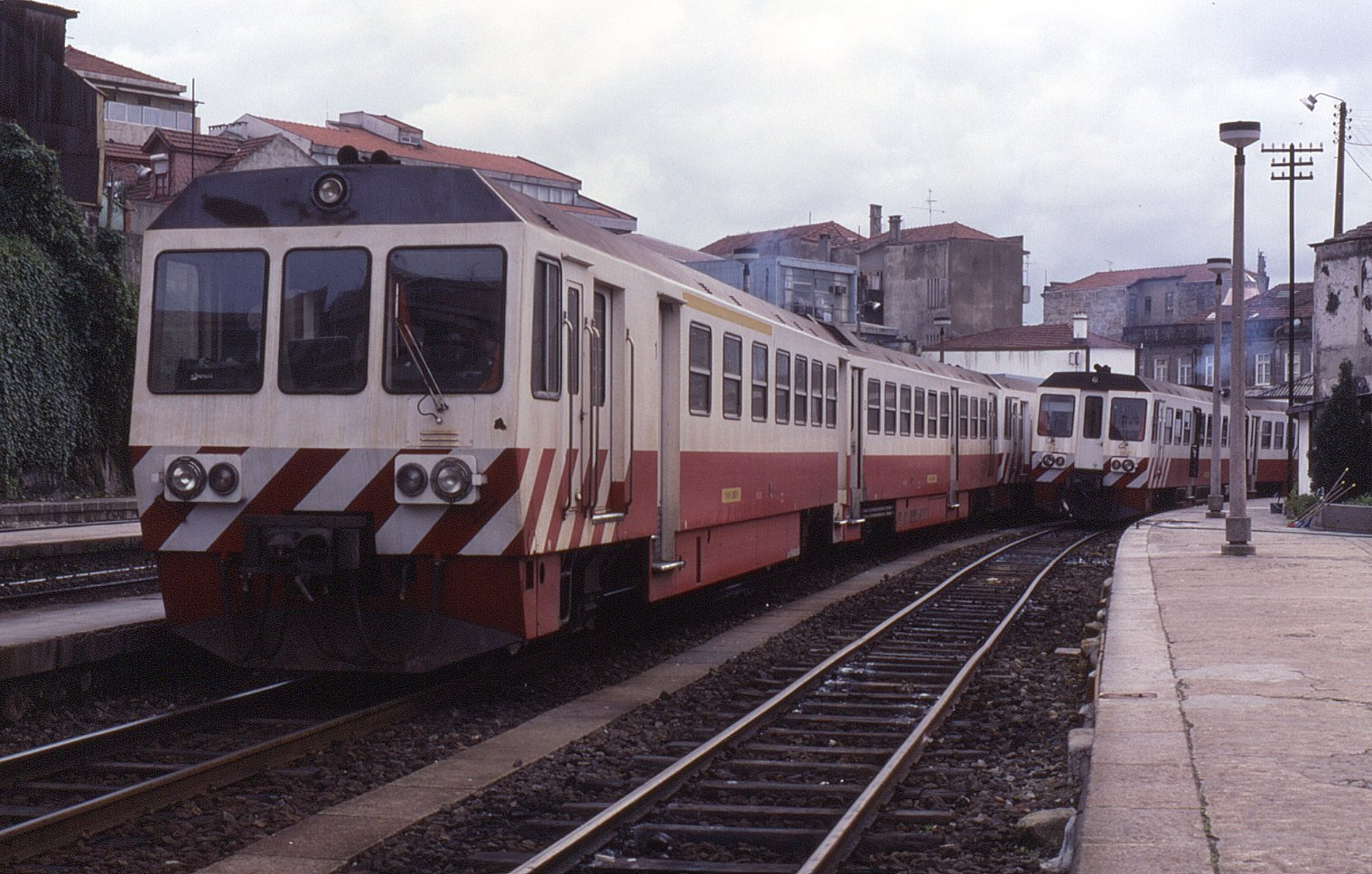 Alsthom built metre gauge railcar sets which were delivered in the mid-1970s for working on the lines out of Porto Trindade as seen here on 26 November 1990.